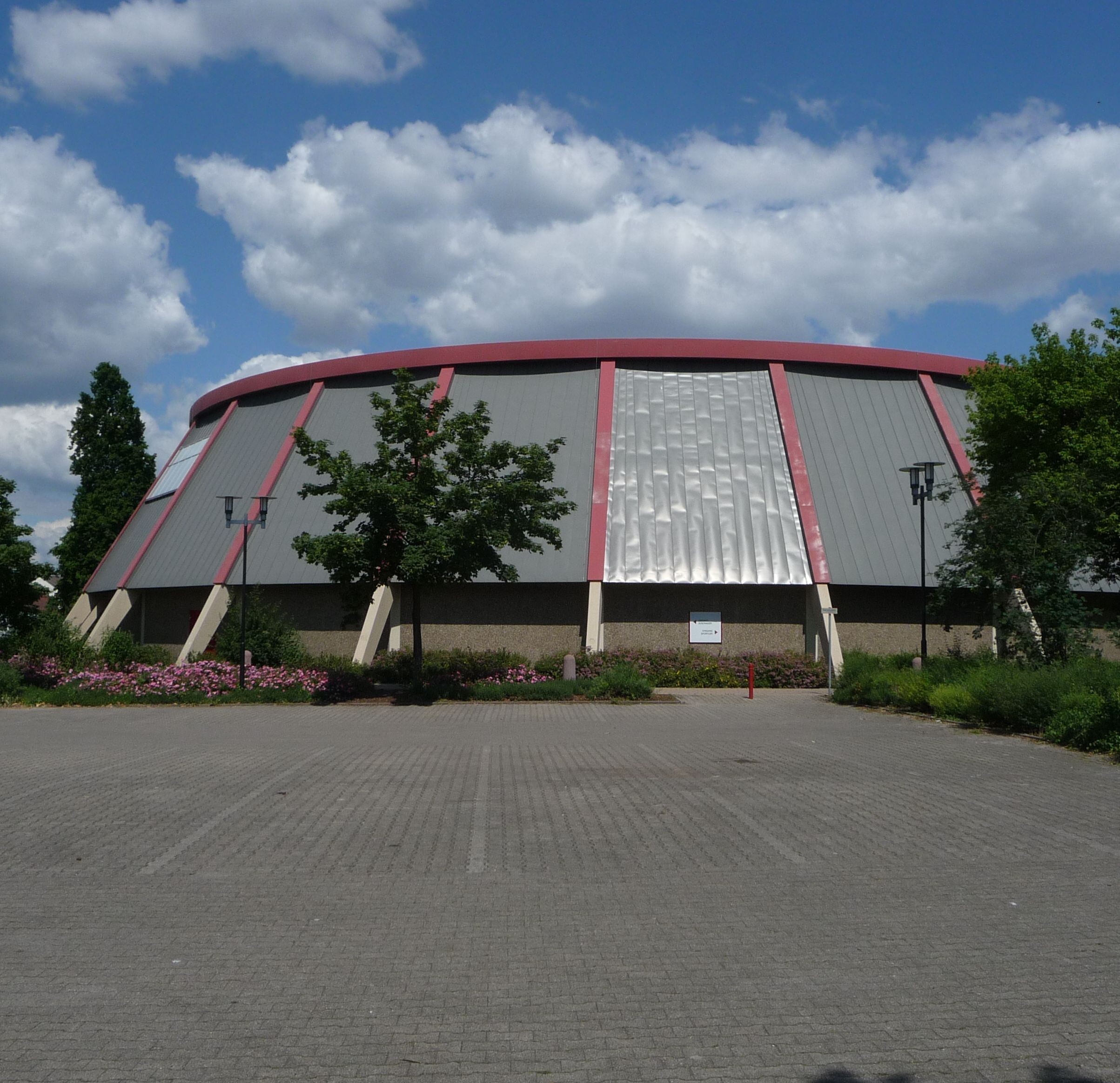 Rundsporthalle